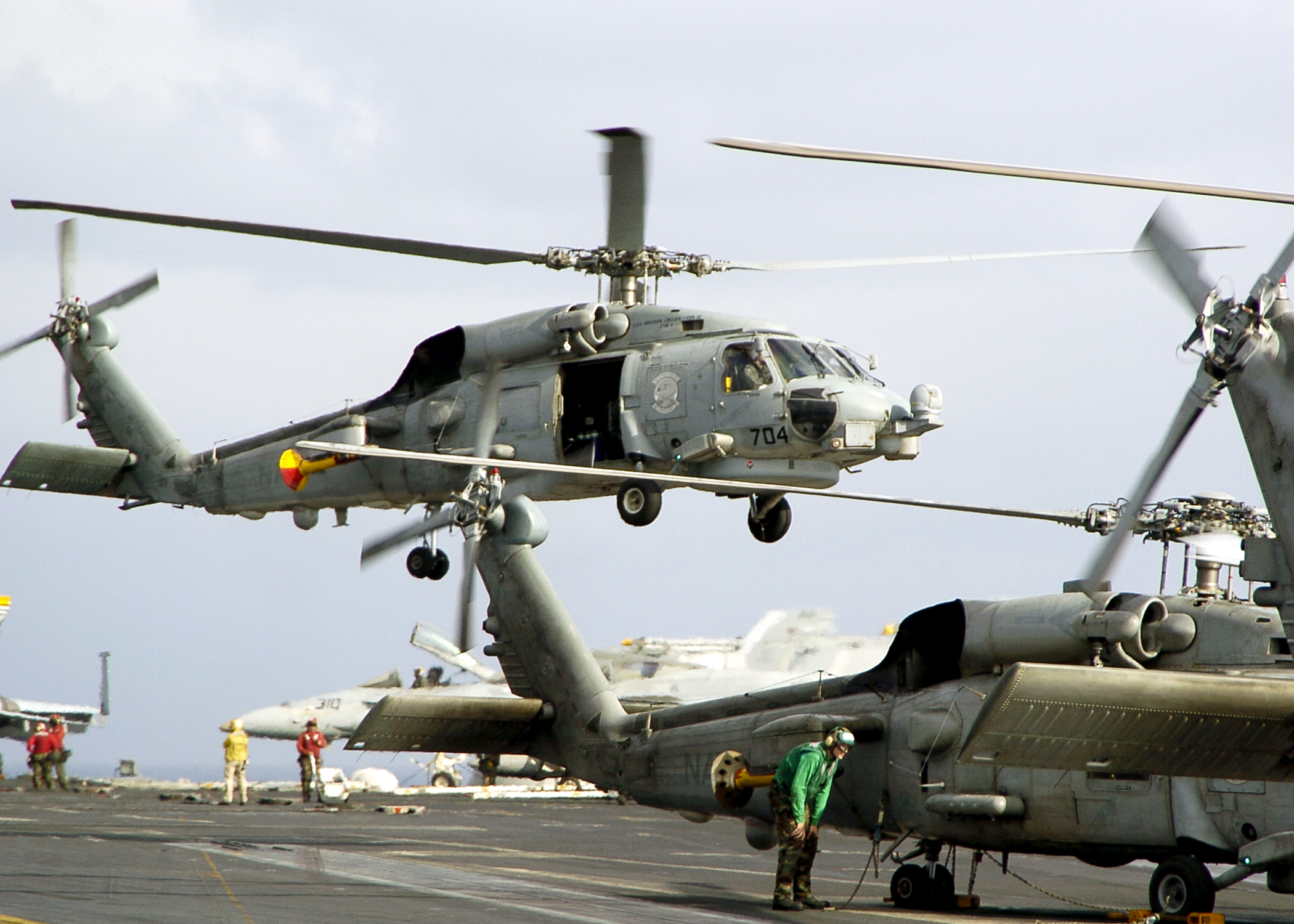 An SH-60B lands onboard USS Abraham Lincoln 041113-N-0057P- Pacific Ocean (November 13, 2004) - USS Abraham Lincoln and embarked Carrier Air Wing TWO (CVW-2) are currently deployed to the Western Pacific Ocean. Carrier Strike Group NINE (CSG-9) is the first to be used in the Sugre Role in support of the Chief on Naval Operations Fleet Response Plan.